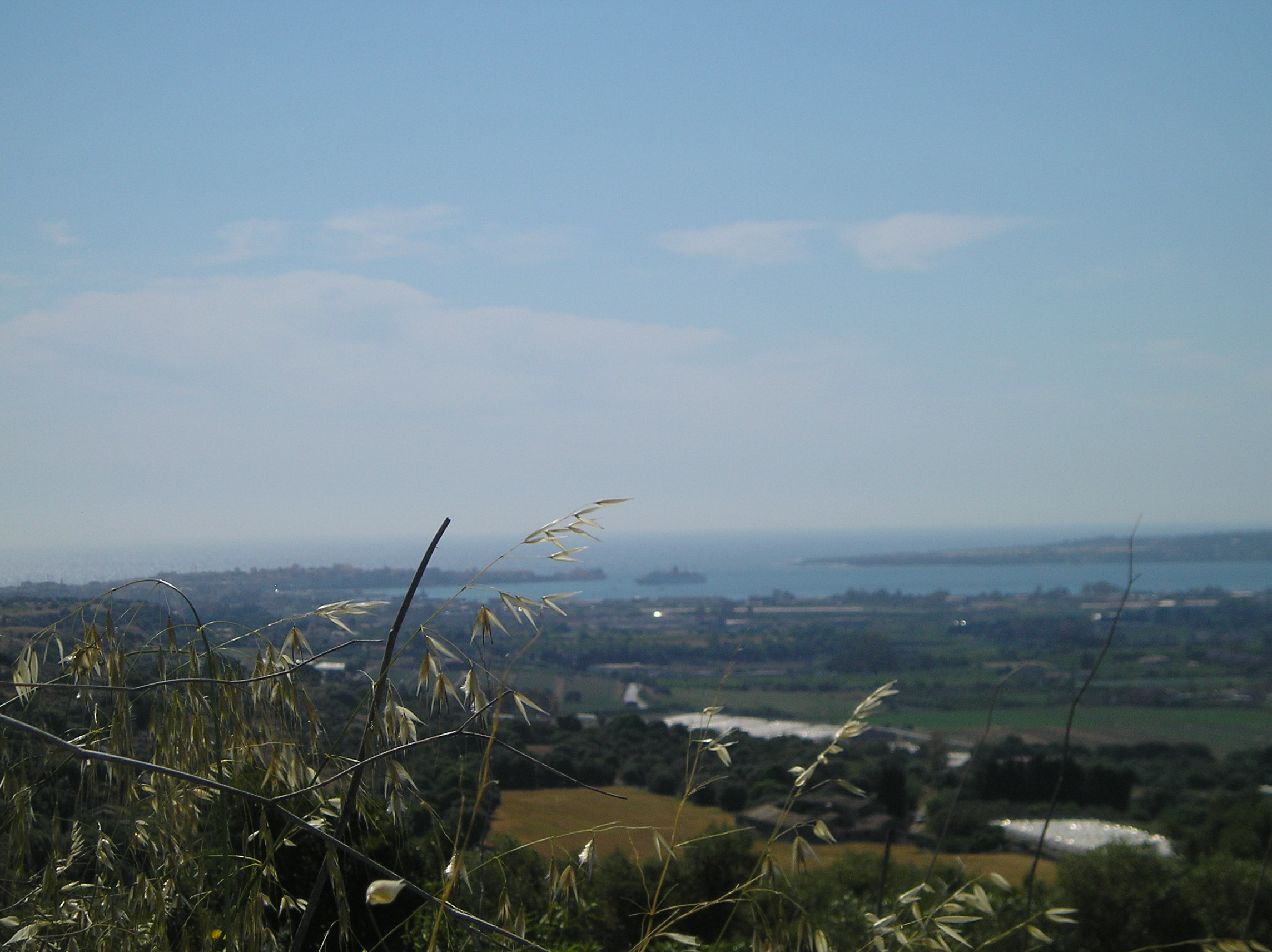 Veduta del porto di Siracusa dall'Epipoli, al castello Eurialo.